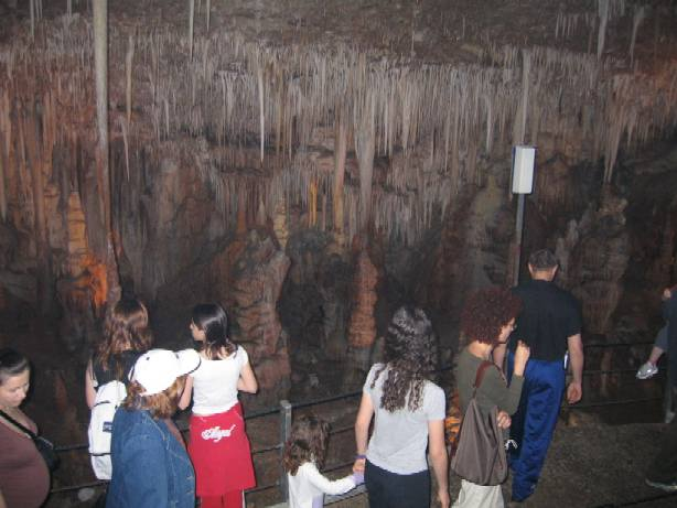 Stalactite in Grotte de Soreq, israel photo by yair talmor, 2006